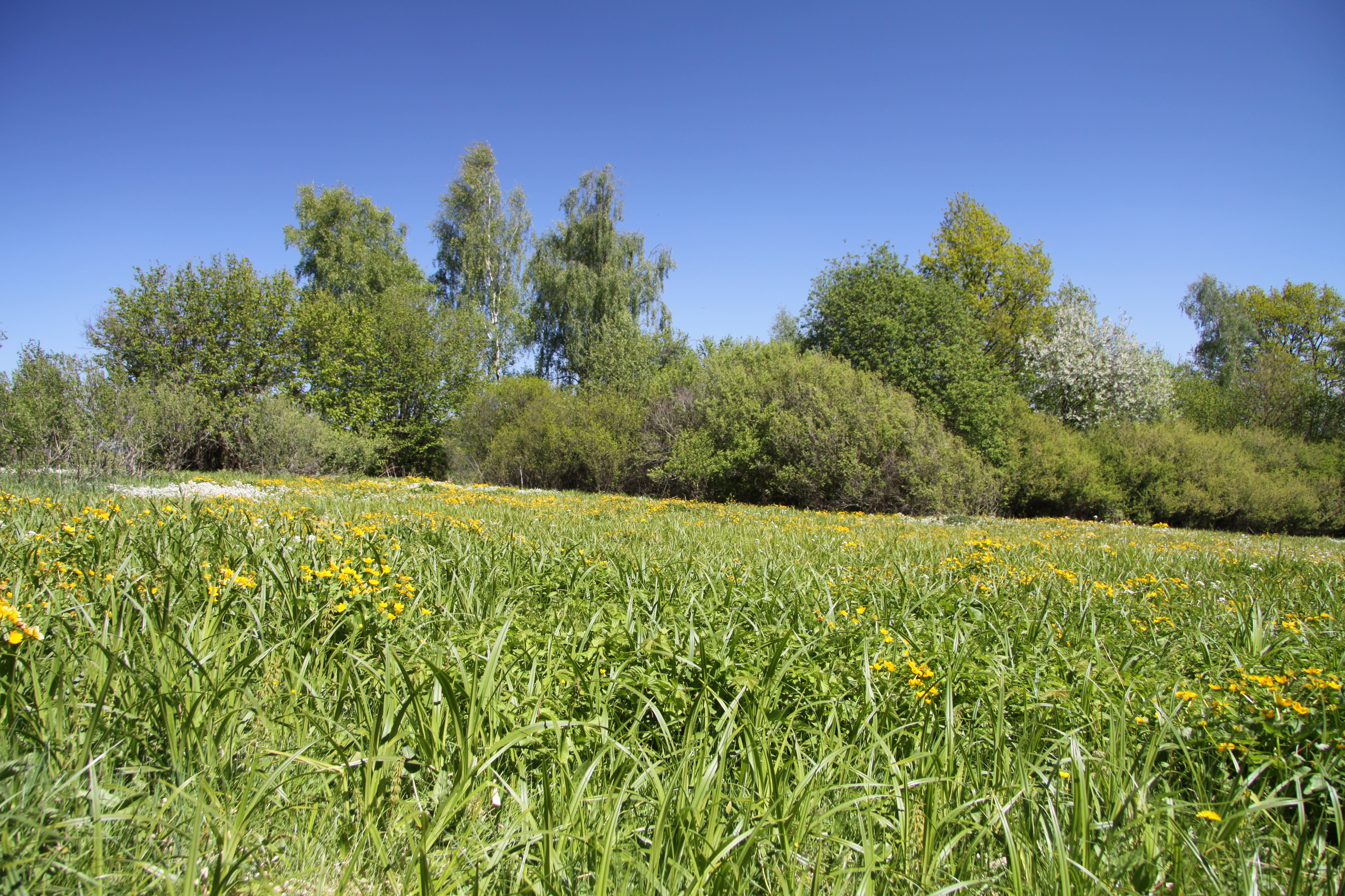 Natural monument Chvalšovické pastviny near Chvalšovice village in Strakonice District, Czech Republic. - Google Maps - Google Earth